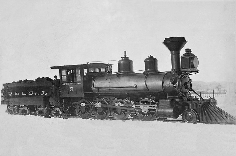 Quebec and Lake Saint-John Railway : Quebec and Lake Saint-John Railroad Locomotive Number 9, Named for the Honorable François Langelier